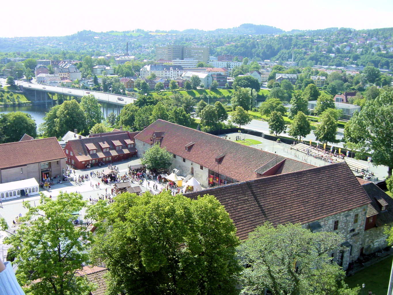 Erkebiskopgården from the Nidaros Cathedral main tower during the Olav days 2002